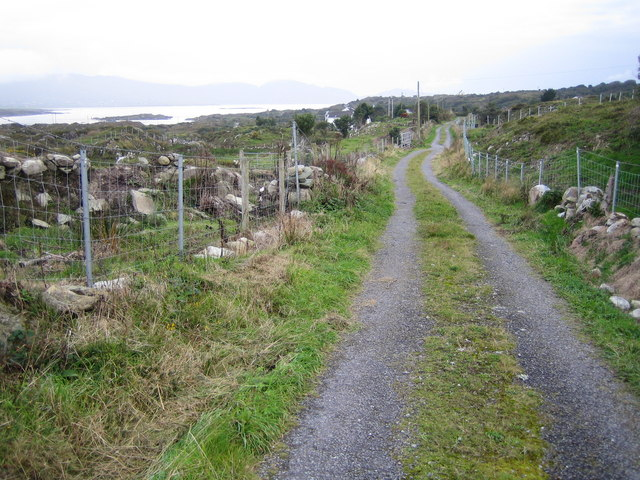 Gortgarriff This is the minor road to Lough Fadda from Gortgarriff, and is on the Beara Way footpath.